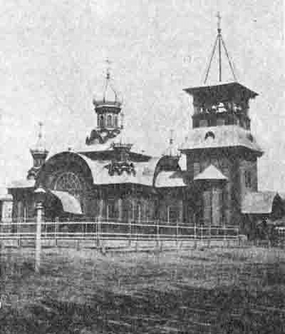 St. John Chrysostom Church, (Iron Church) in Kiev